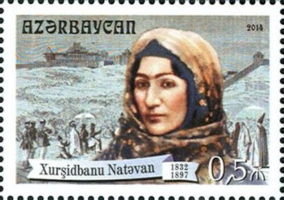 Stamps of Azerbaijan, 2014